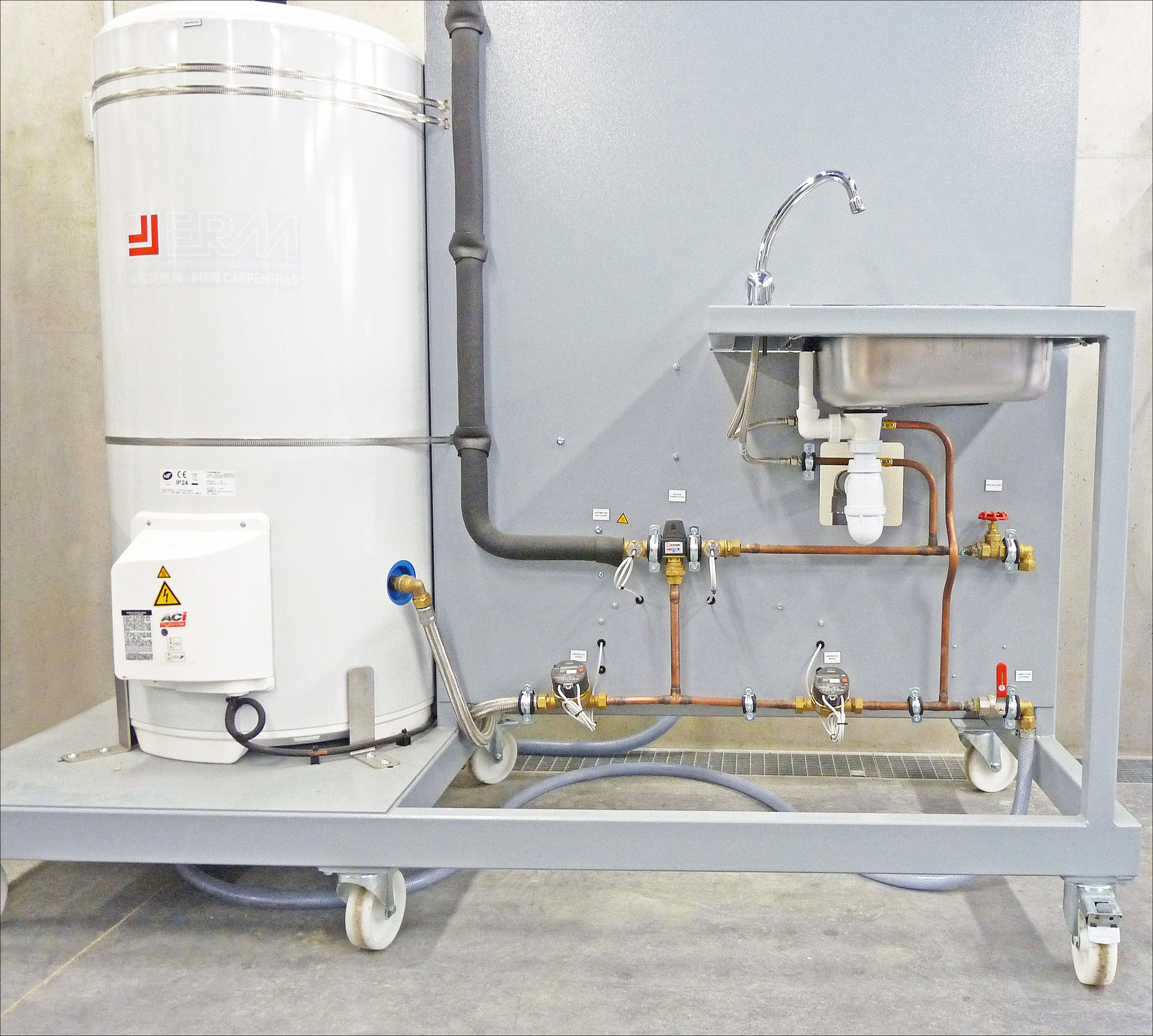 Equipment for courses in plumbing aprenticeship technical school.